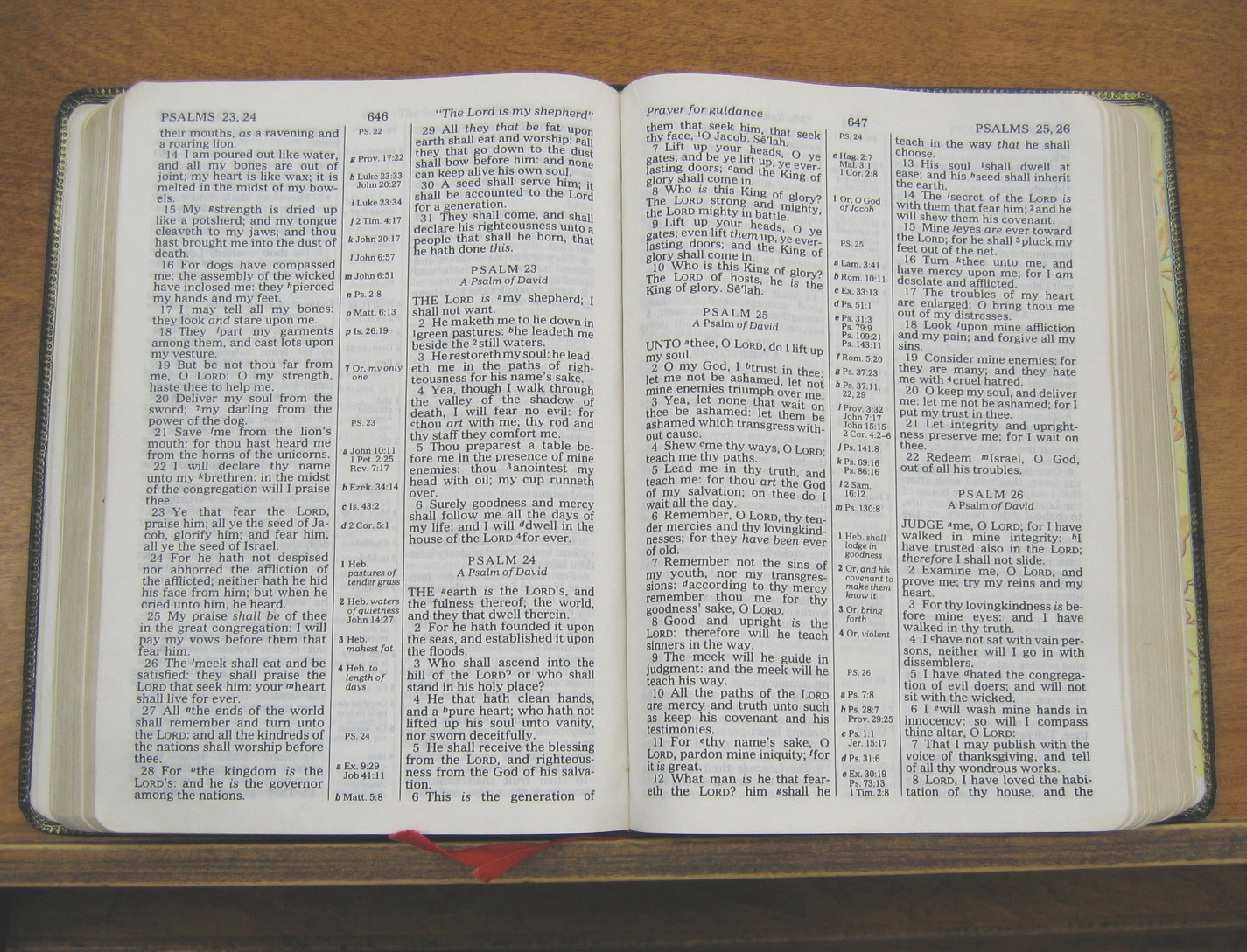 King James Version of the Bible open to the Book of Psalms